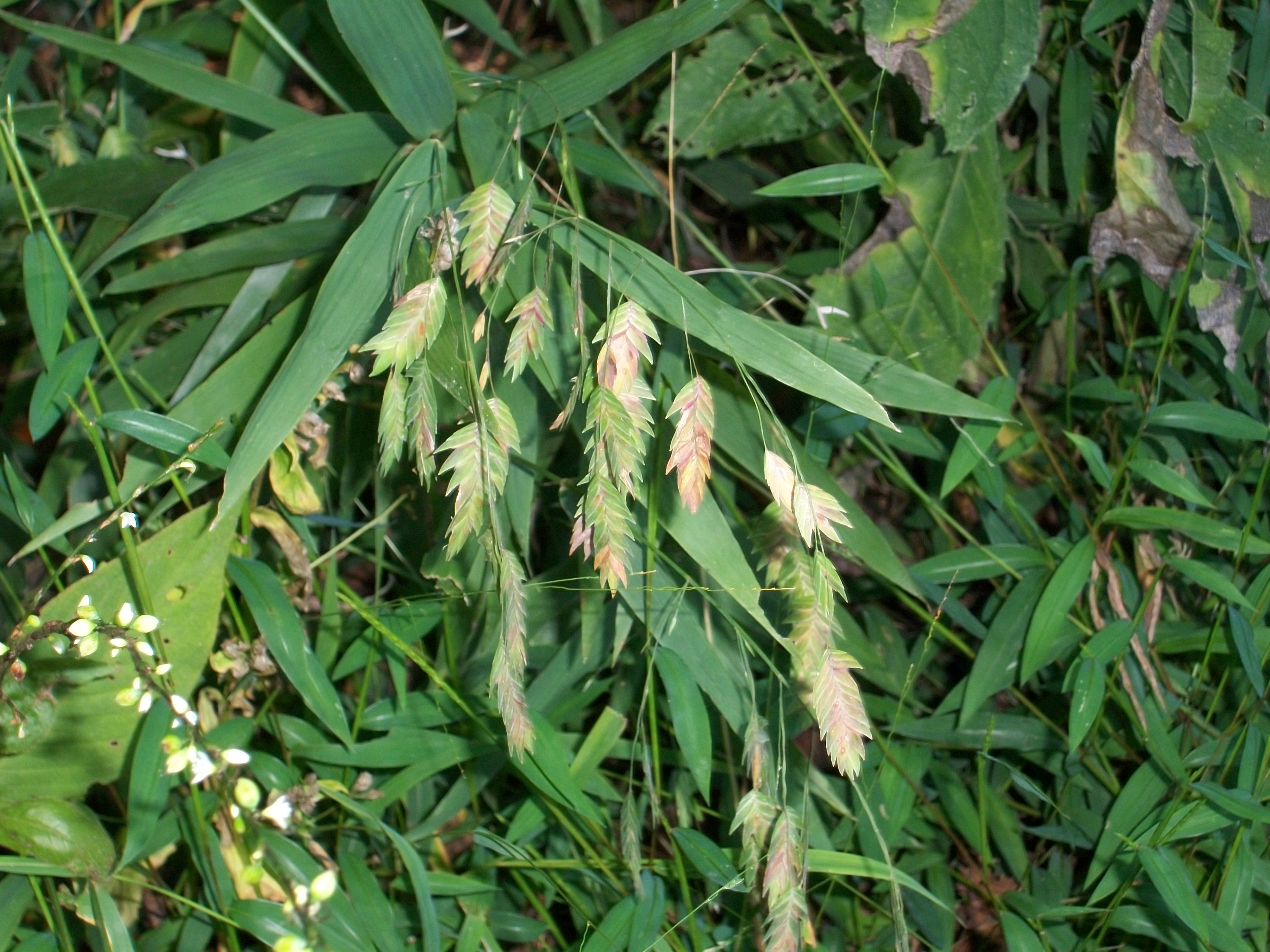 Chasmanthium latifolium at Devil's Den State Park, Arkansas, USA